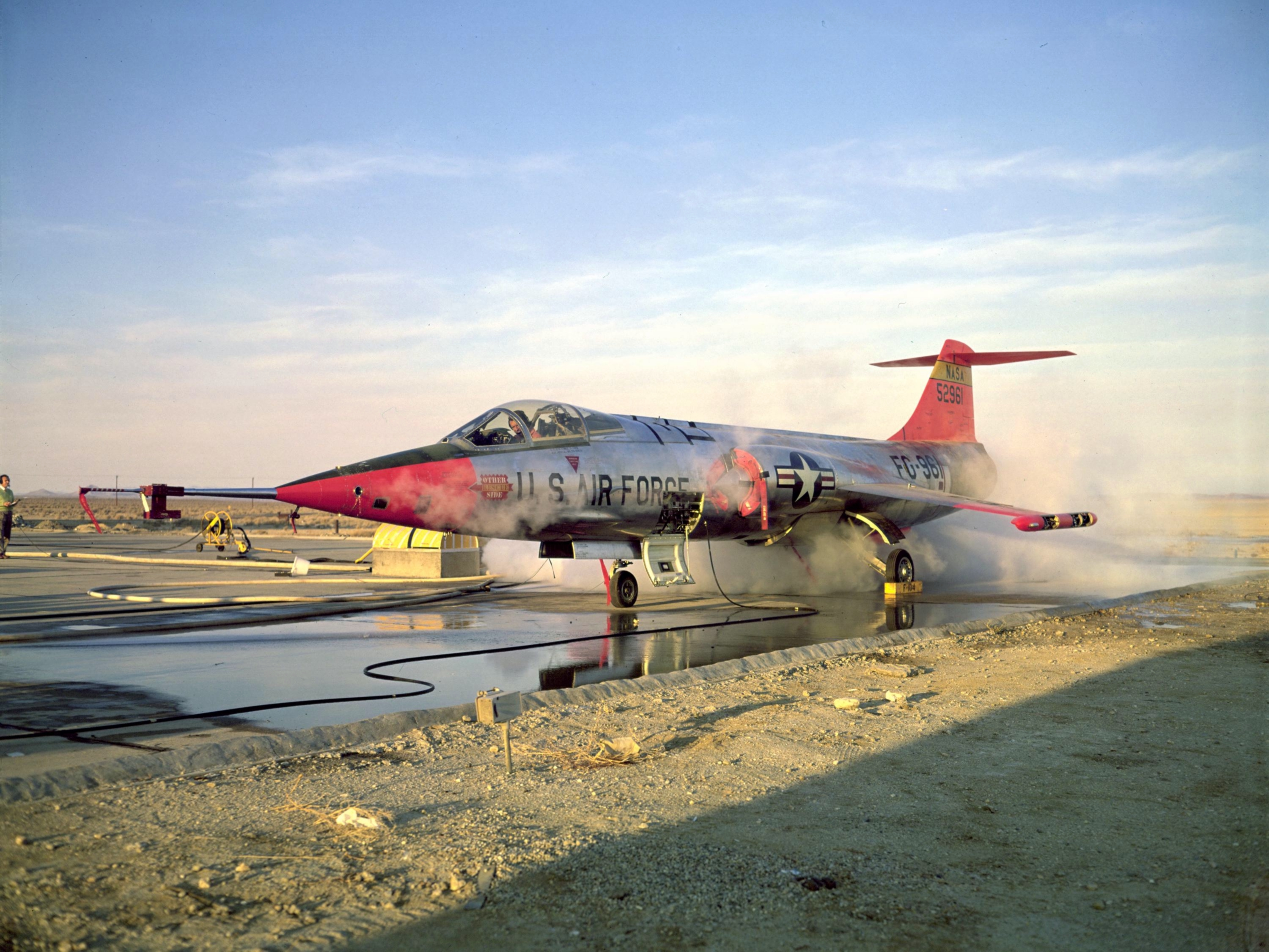 JF-104A (formerly YF-104A, serial #55-2961) ground testing its reaction control system. The aircraft was modified with a hydrogen peroxide reaction control system (RCS). Following a zoom climb to altitudes in the vicinity of 80,000 feet, the RCS gave the jet controllablity in the thin upper atmosphere where conventional control surfaces are ineffective.